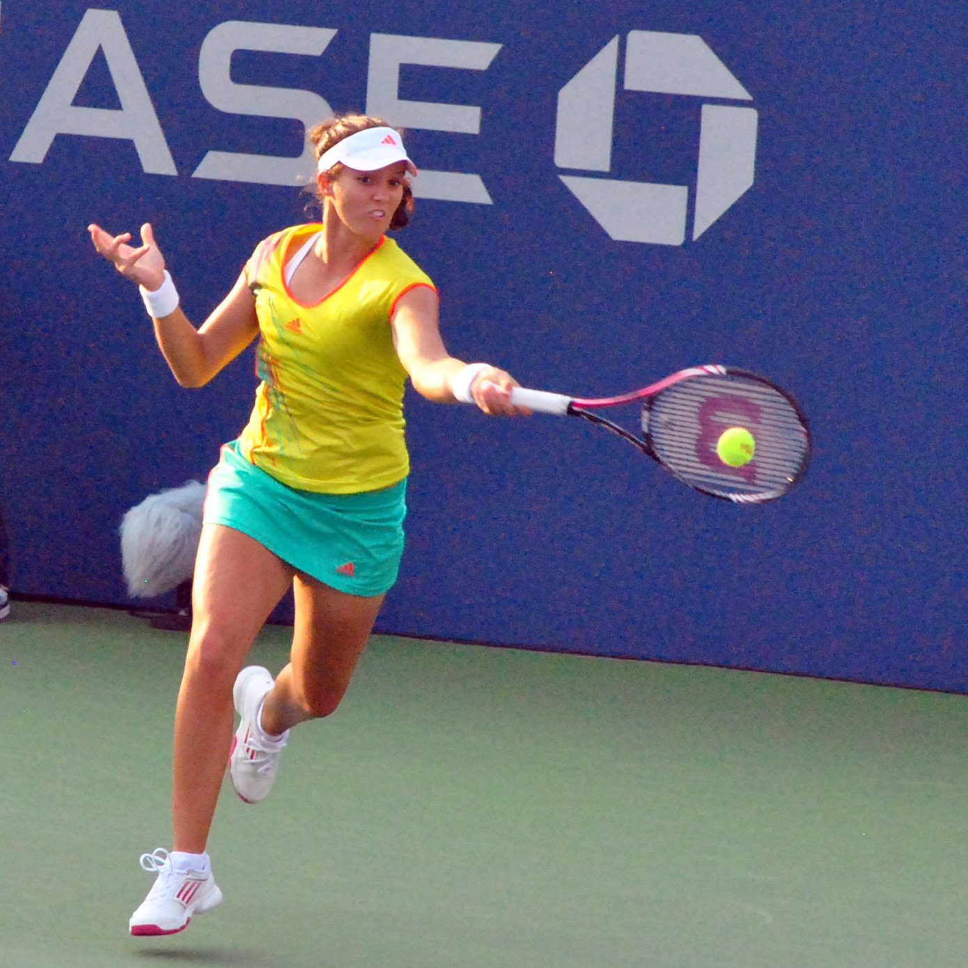 Robson at the 2012 US Open